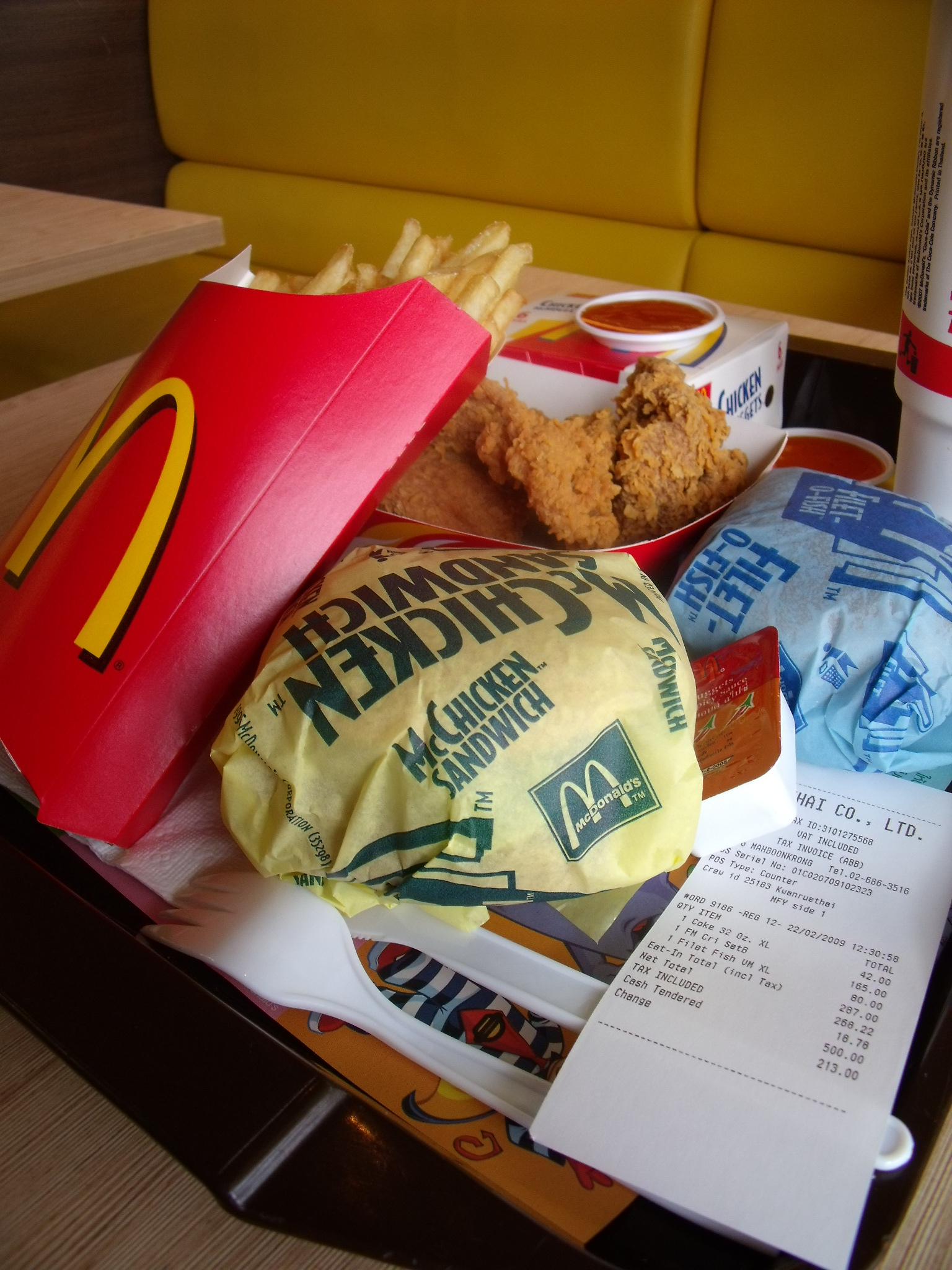 I had a hearty meal at McDonald's while holidaying in Bangkok, Thailand.